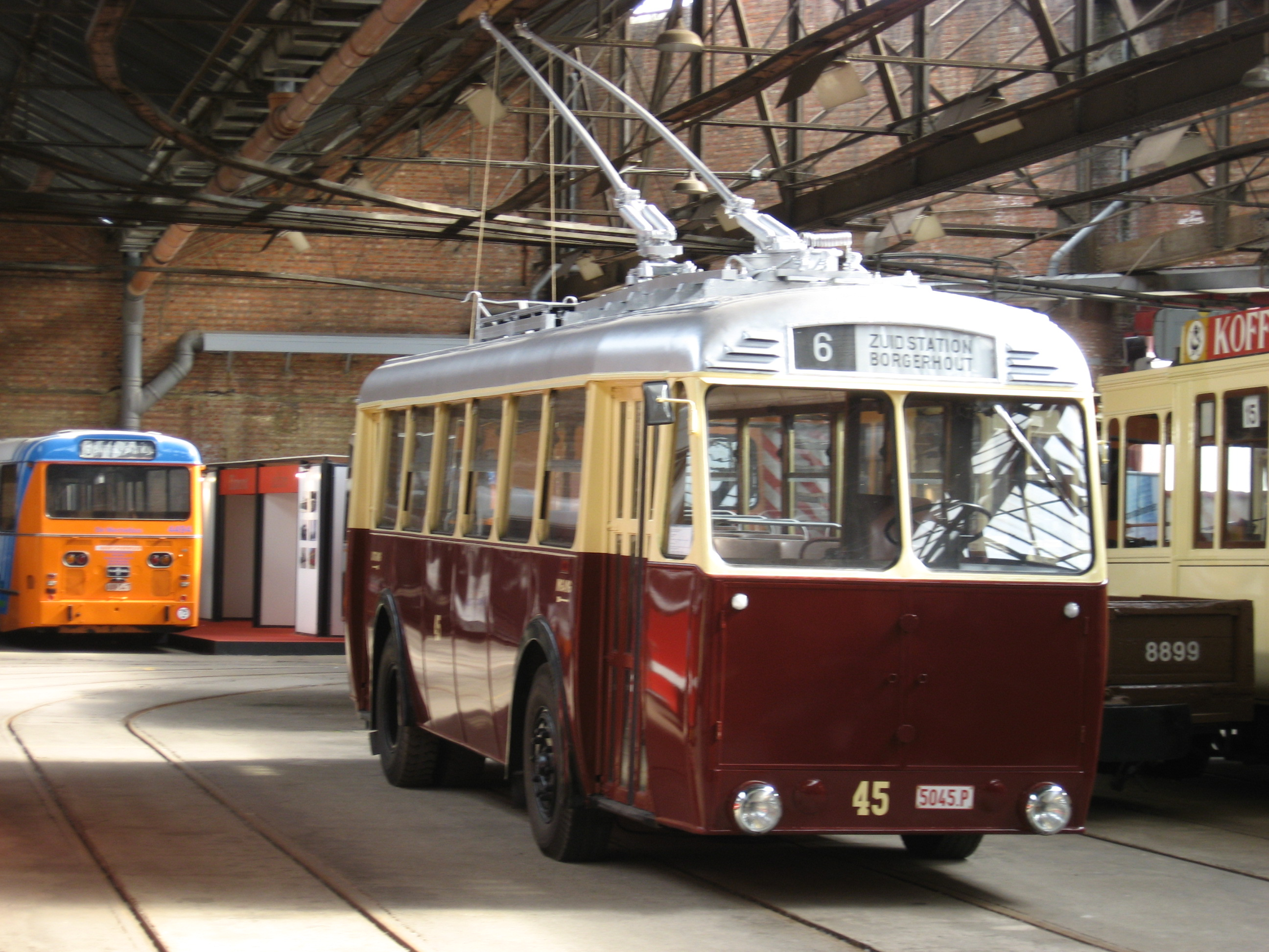 Antwerp trolleybus in the "Vlaamse Tram en bus museum". There was only one trolleybusline in the city.